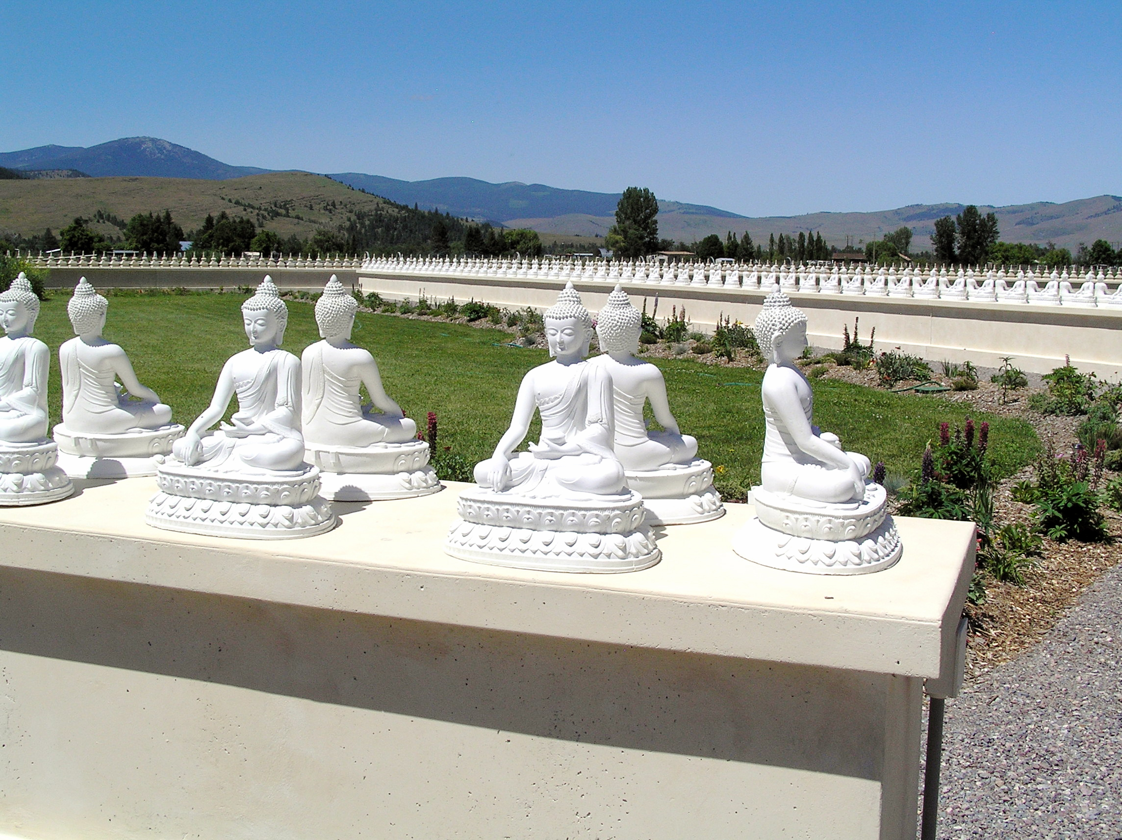 The Garden of One Thousand Buddhas, near Arlee, Montana